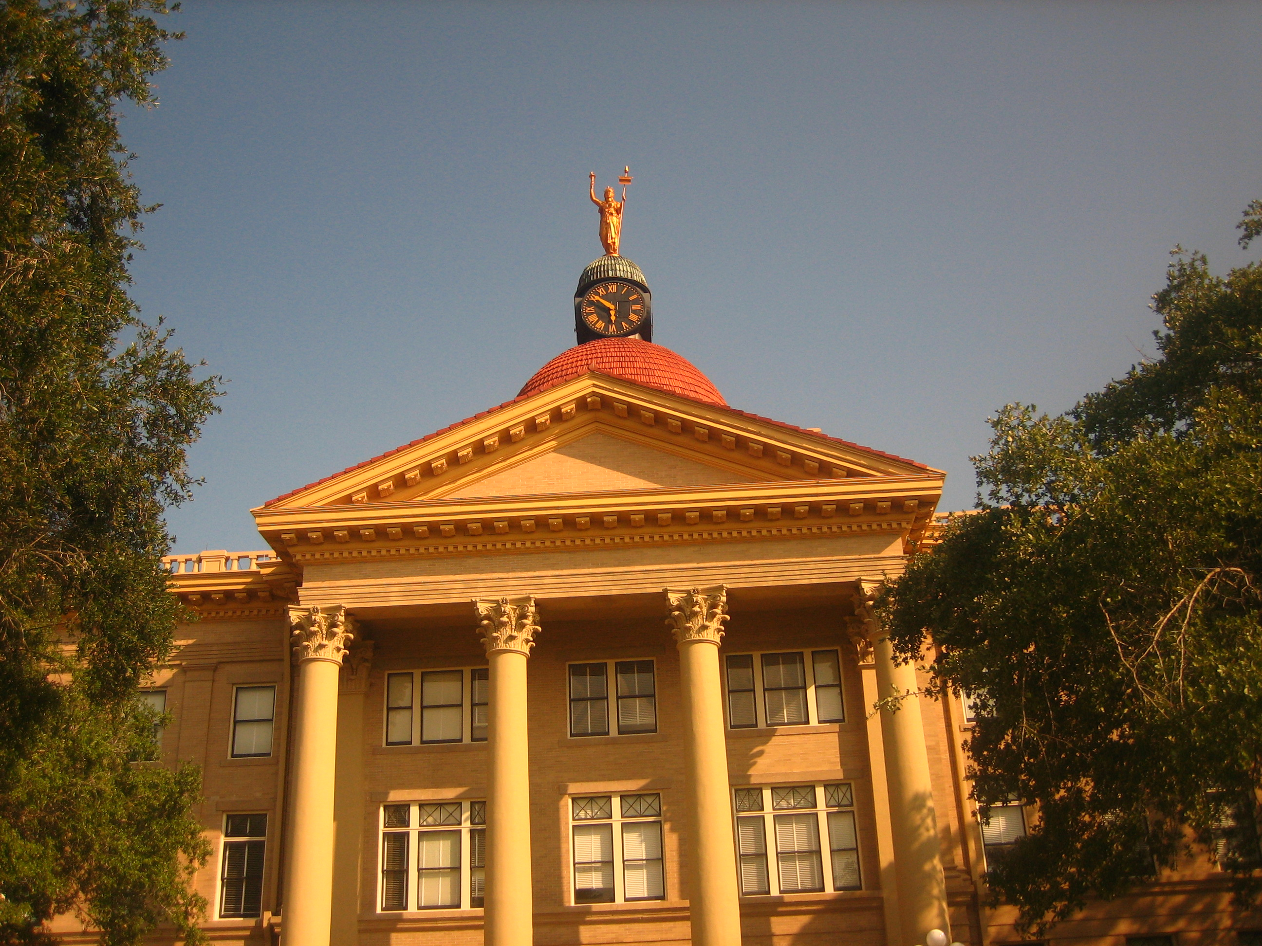 Clock and statue on the top of the Bee County courthouse, Beeville, Texas